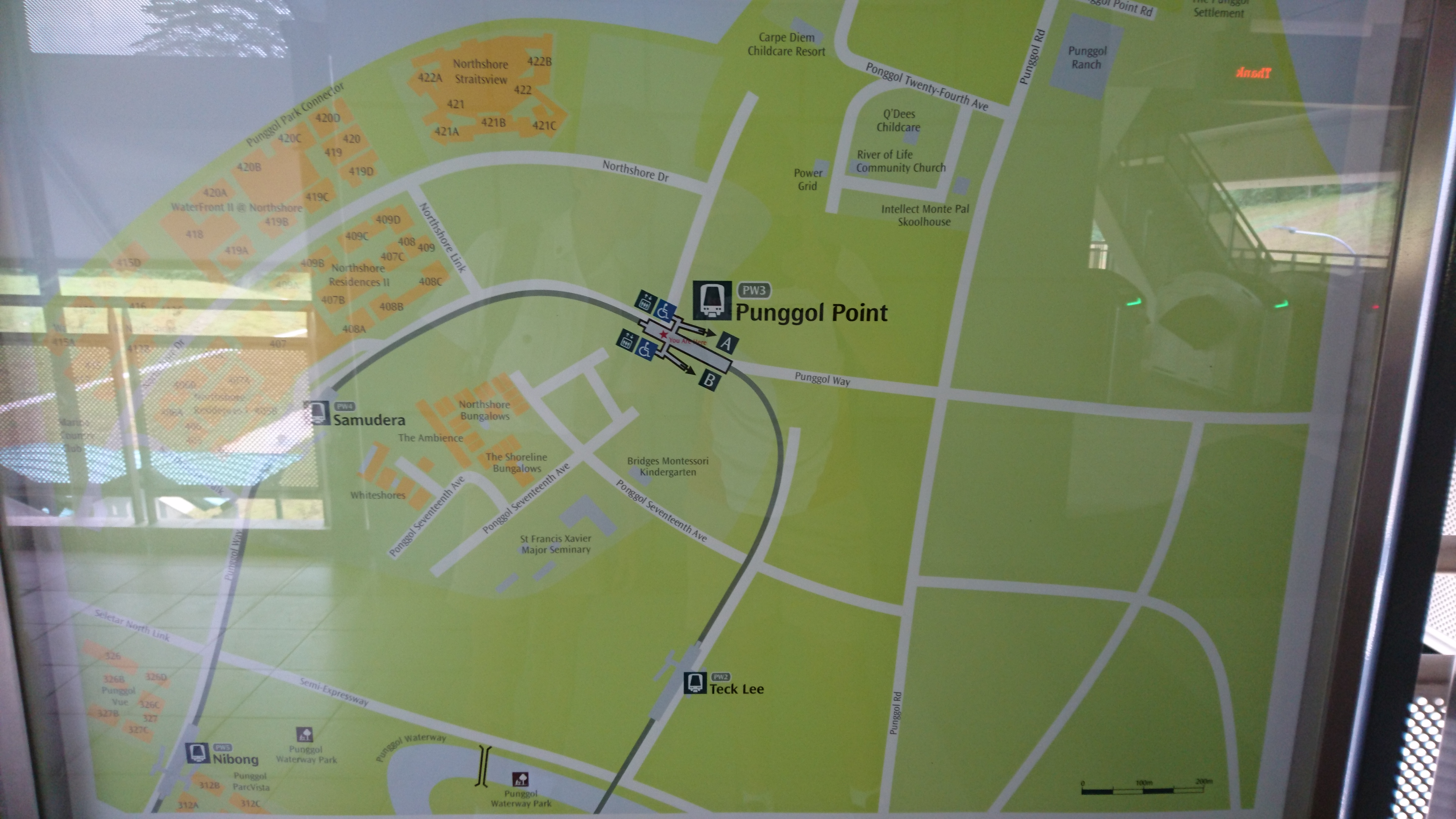 The new locality map of the station